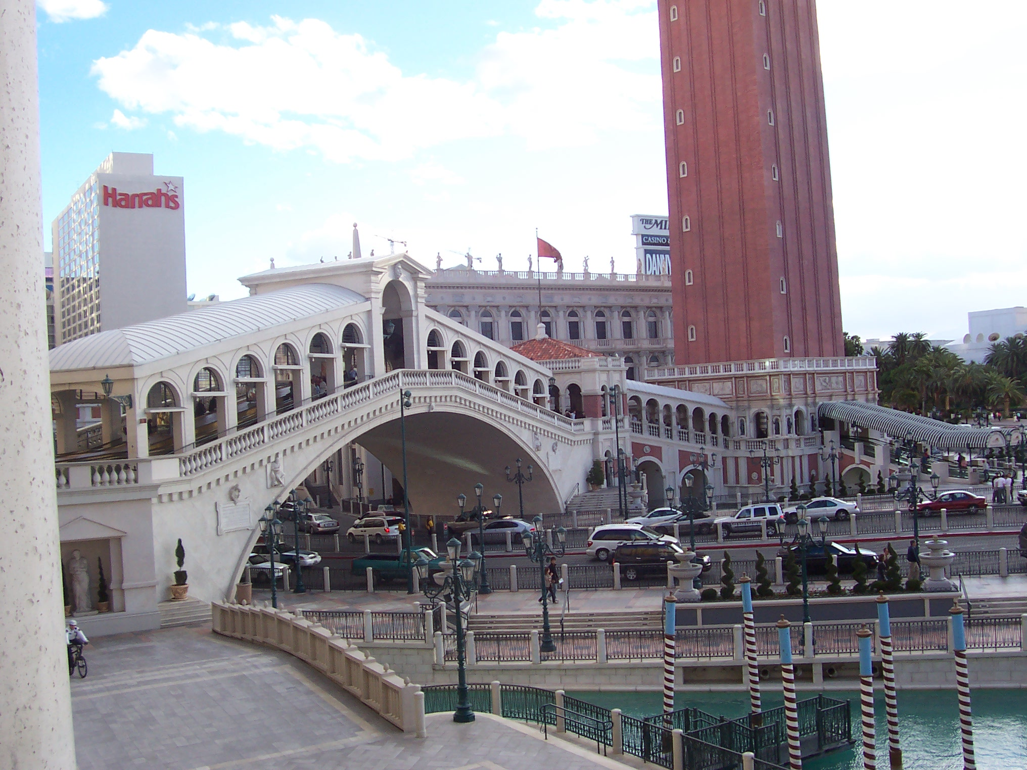 A replica of the Rialto Bridge in the Venetian hotel in Las Vegas.